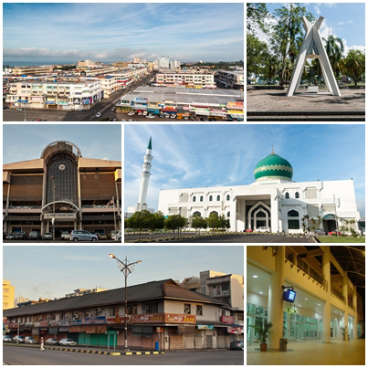 A composite image of icons of Tawau from these images. Upload by Cccefalon Upload by Cccefalon Upload by Cccefalon Upload by Cccefalon Upload by Cccefalon Upload by Oscark